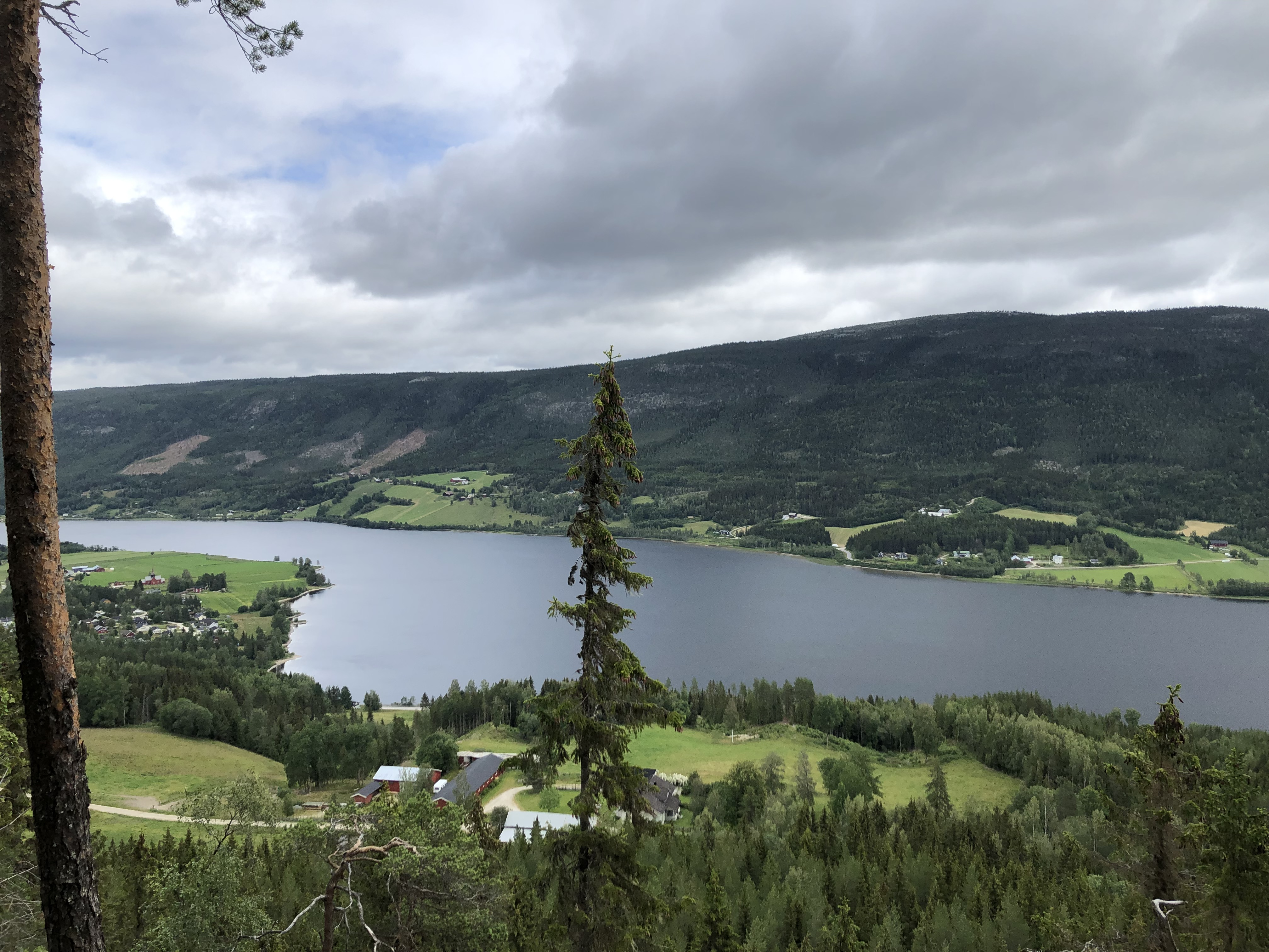 View over lake Lomnessjøen, Norway